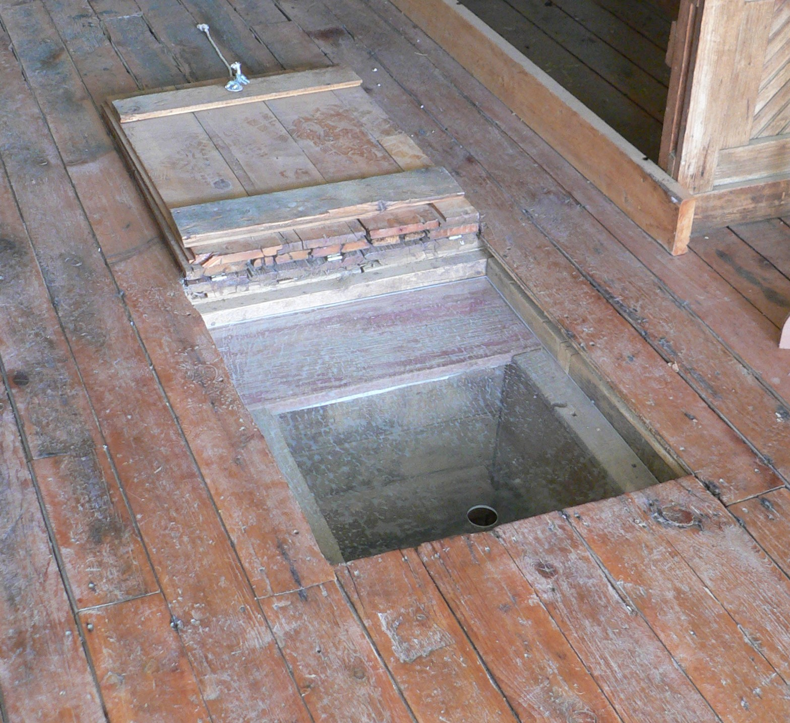 Trapdoor in Pond Creek stage station at the Fort Wallace Museum on the southeastern edge of Wallace, Kansas.